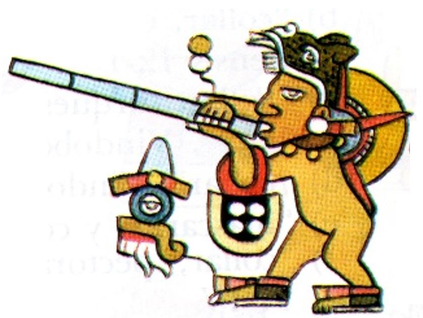 Mixtec warrior using a blowgun or Tlacalhuazcuahuitl with bag of darts.Codex Bodley page 38-39